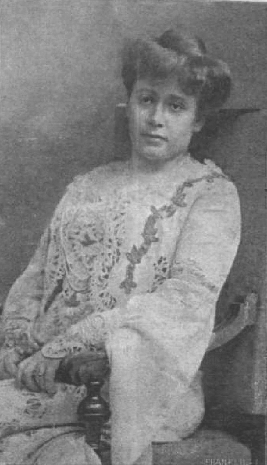 Nelly Radóné Hirsch